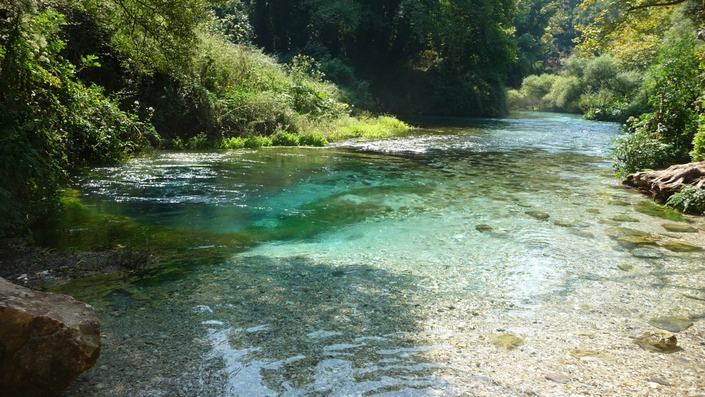 Blue Eye, Albania